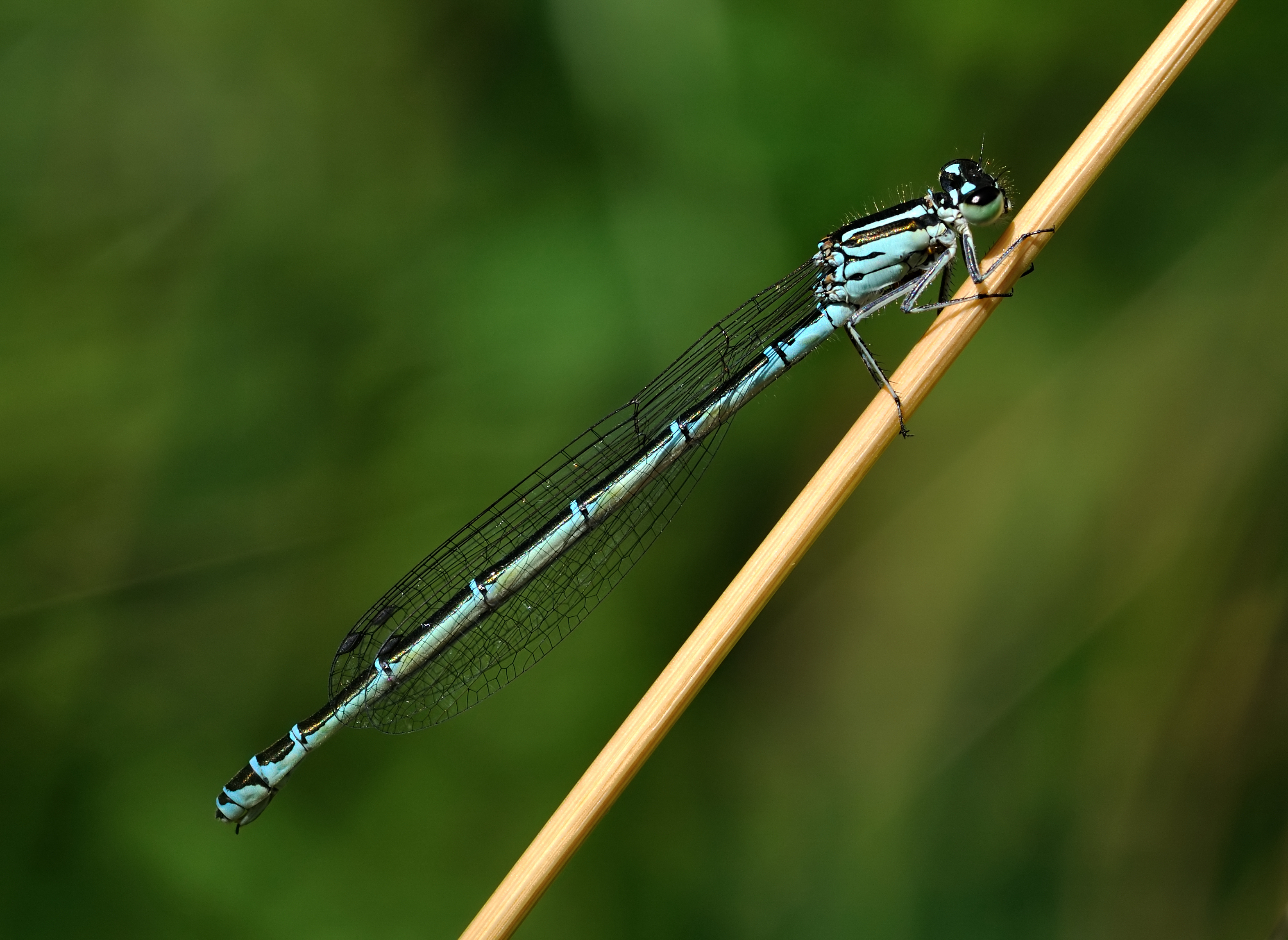 Female Azure Damselfly (Coenagrion puella) with an unusual blue (androchrome) coloring near the old airstrip, Frankfurt, Germany.